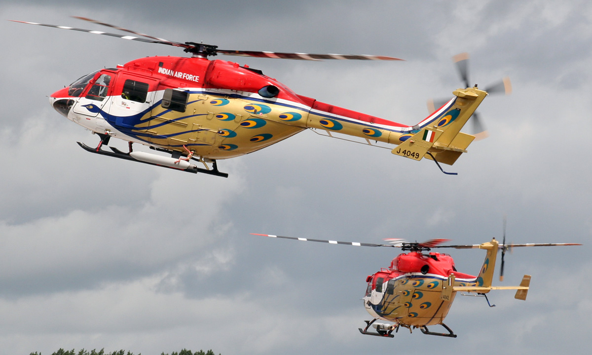 Hindustan Dhruv Indian Air Force J4049 C/N DS37